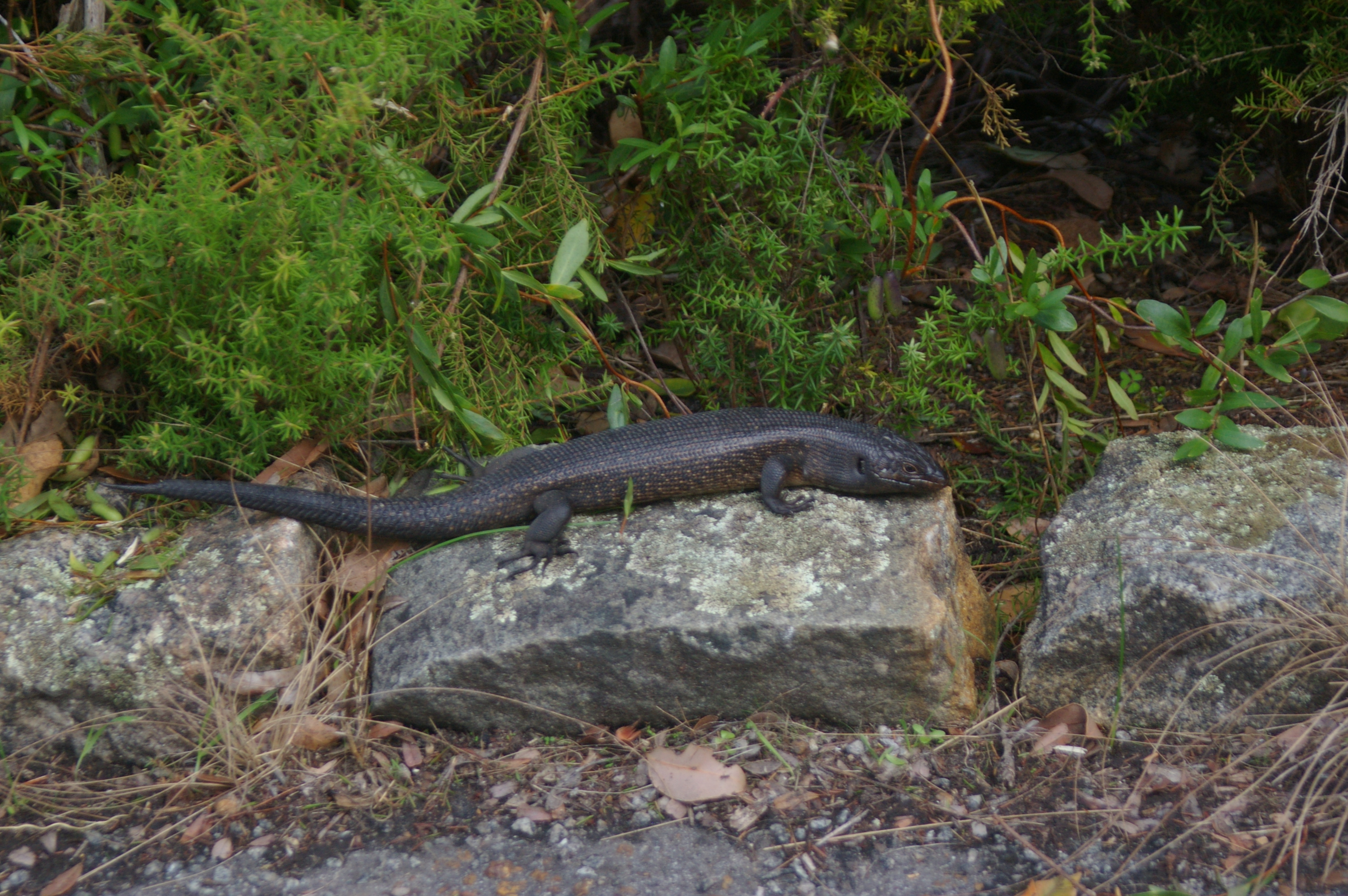 Photo of King's Skink taken on Mount Clarence in Albany Western Australia